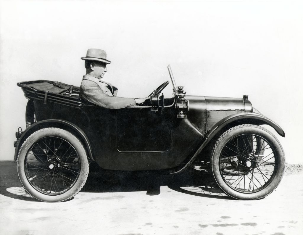 Herbert Austin driving an Austin Seven